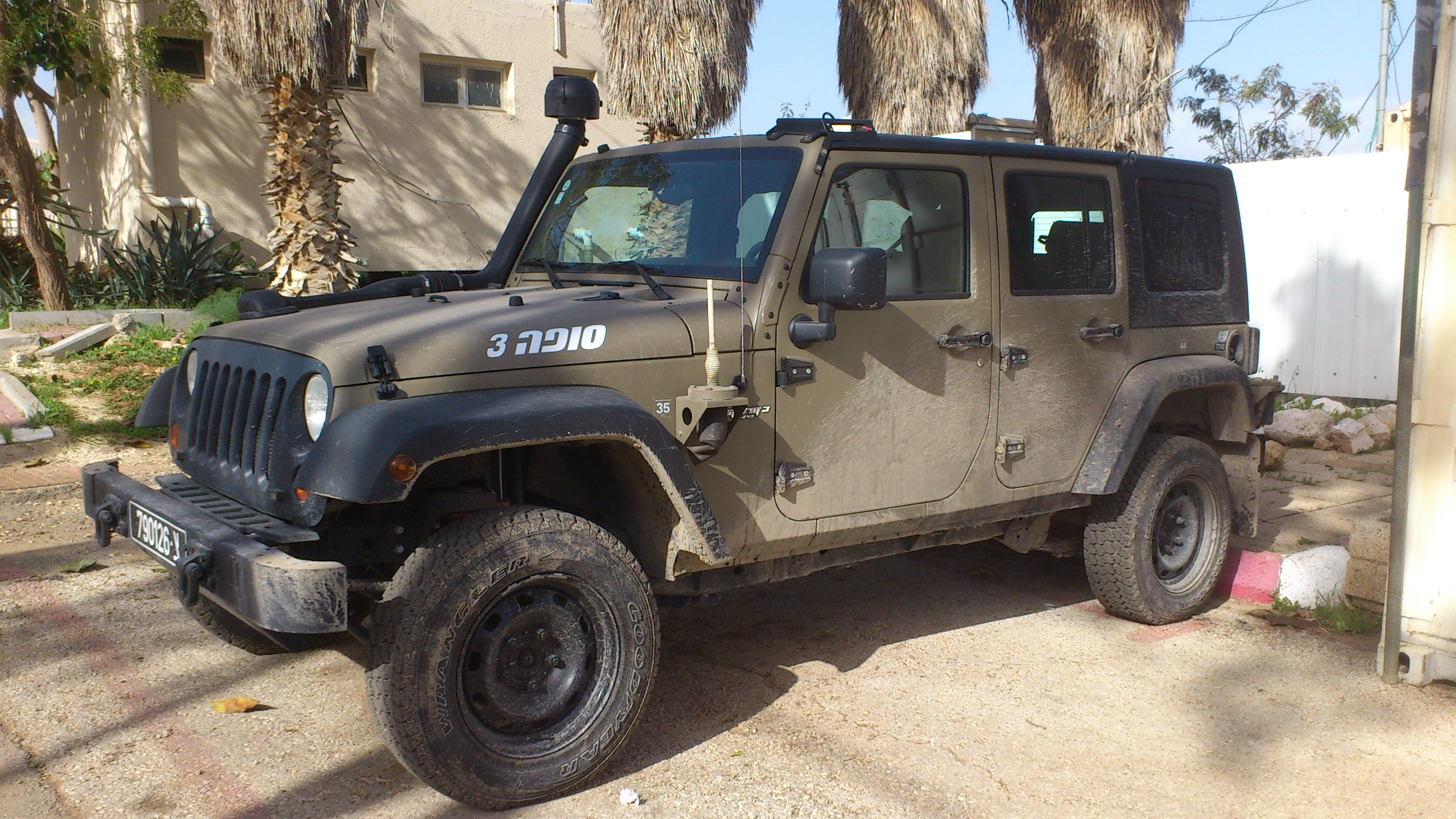 The commander version incorporates a 5 door hard top cab allowing for the quick and convenient entrance and exit of the driver and all passengers or troops. A small rear compartment enables the storage of both cargo and communications equipment. This version comes equipped with an air conditioning system providing maximum comfort in hot climatic conditions. A roll over protection structure (ROPS) maximizes safety conditions for passengers.